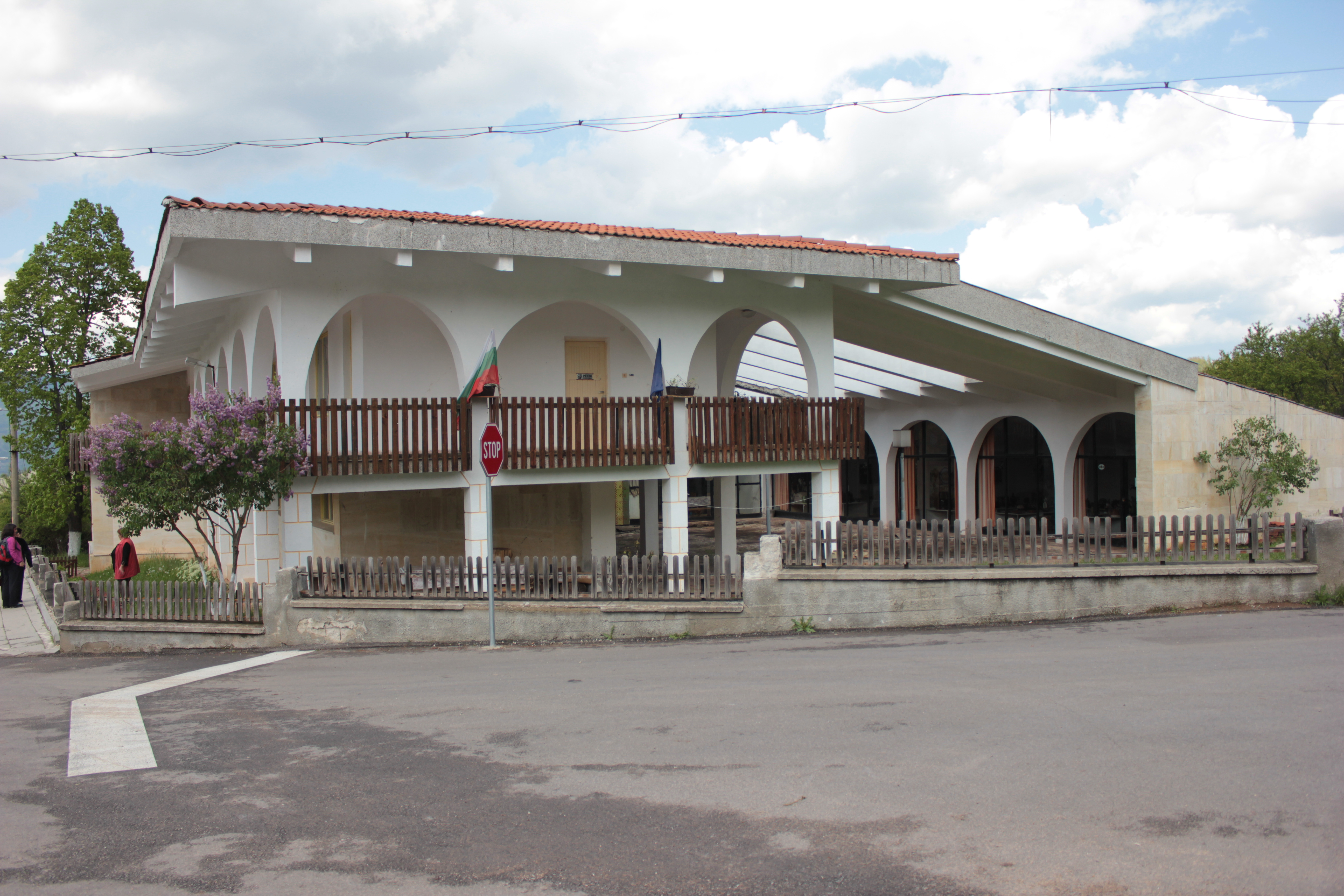 Museum Ceramics of Busitsi